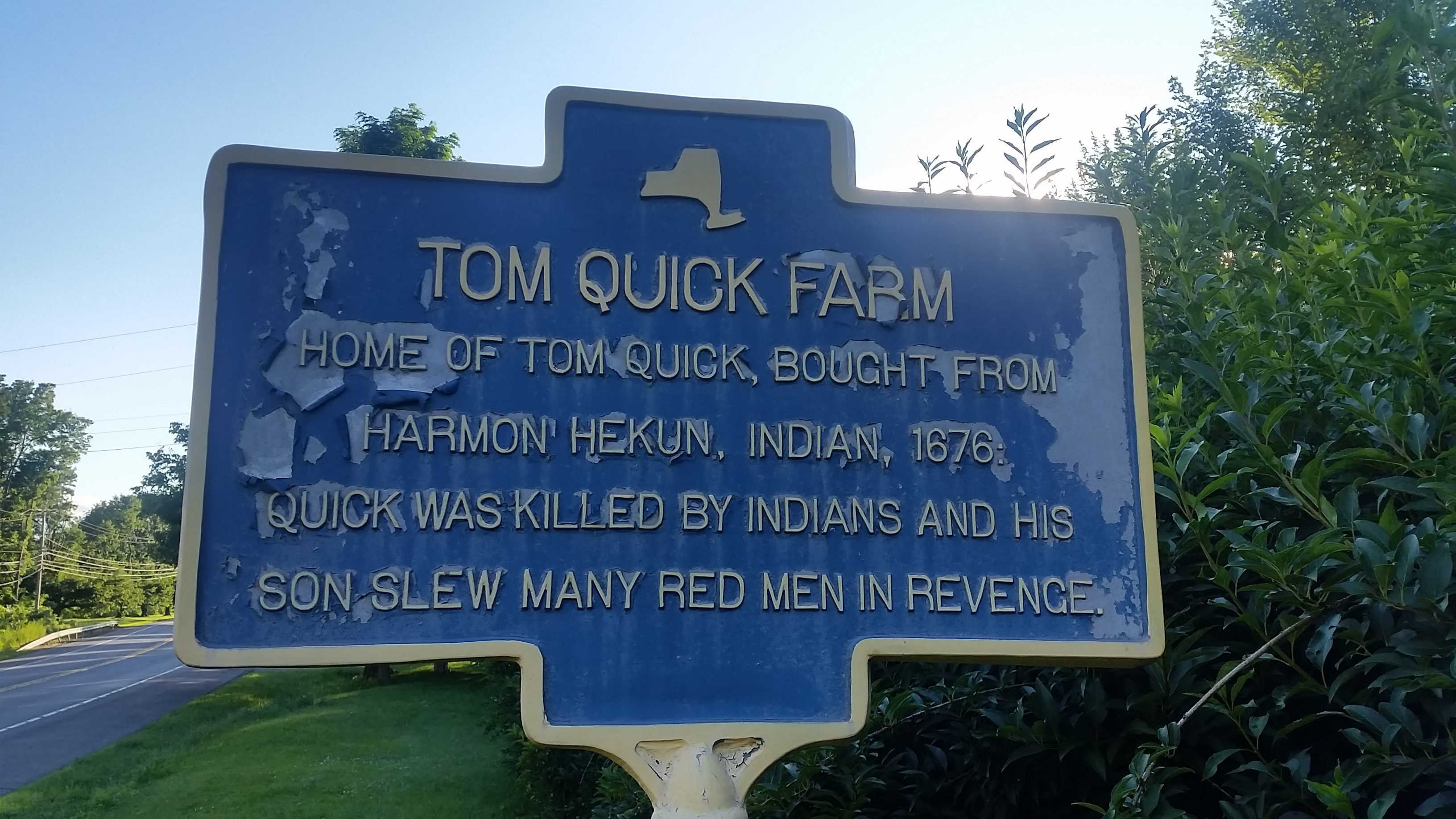 NY State historical marker for Tom Quick Farm